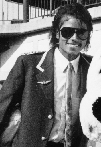 Cropped photograph of Michael Jackson with a Knott's Berry Farm Snoopy mascot in April 1984. There are no known copyright restrictions on this image. All future uses of this photo should include the courtesy line, "Photo courtesy Orange County Archives." Photo from the Knott's Berry Farm Collection.